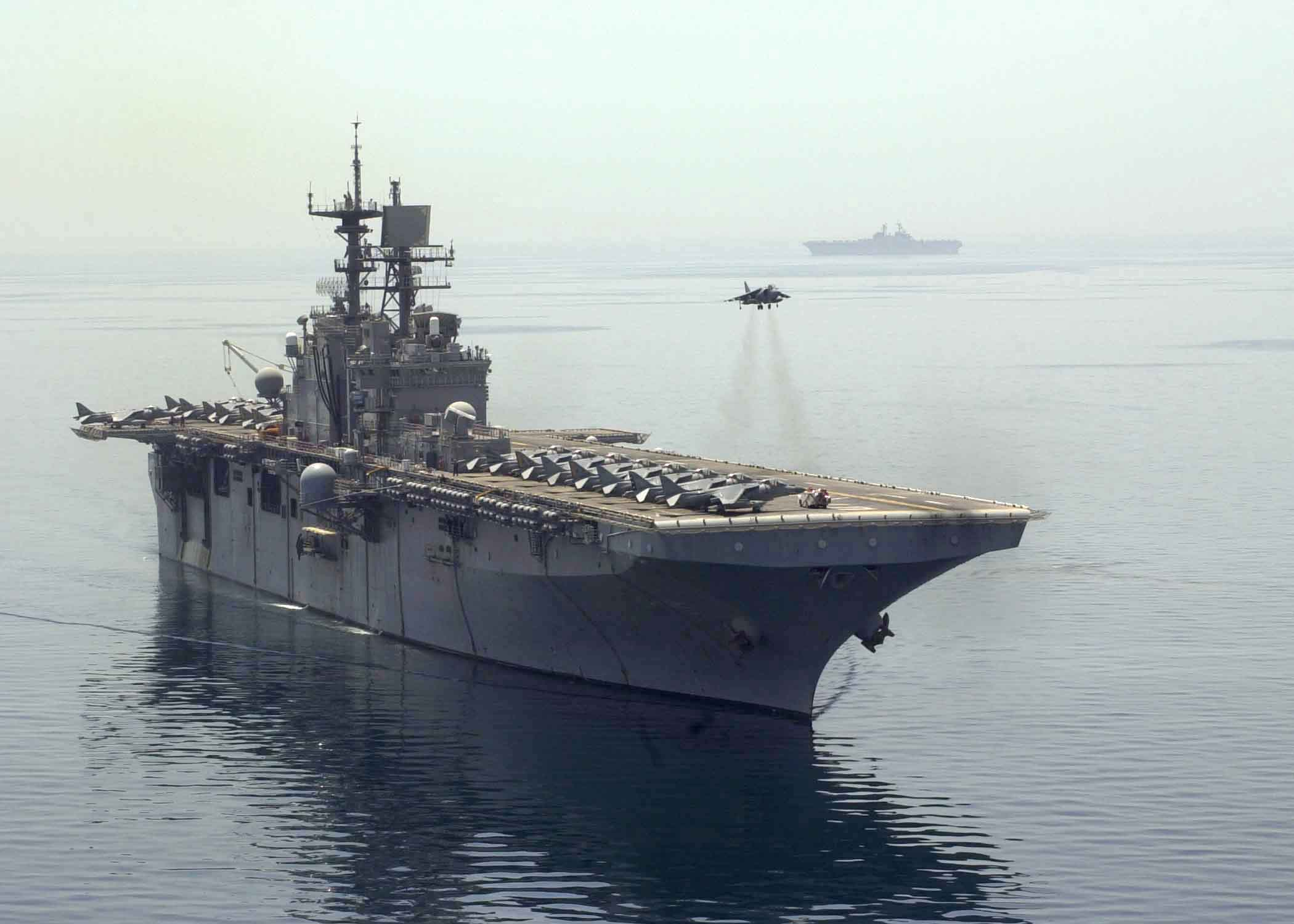 Red Sea (Apr. 25, 2003) -- An AV-8B Harrier aircraft hovers above the flight deck of the amphibious assault ship USS Bataan (LHD 5) as the pilot makes a vertical landing. The Bataan was dubbed "Harrier Carrier" during Operation Iraqi Freedom. U.S. Navy photo by Photographer’s Mate 3rd Class Jonathan Carmichael.